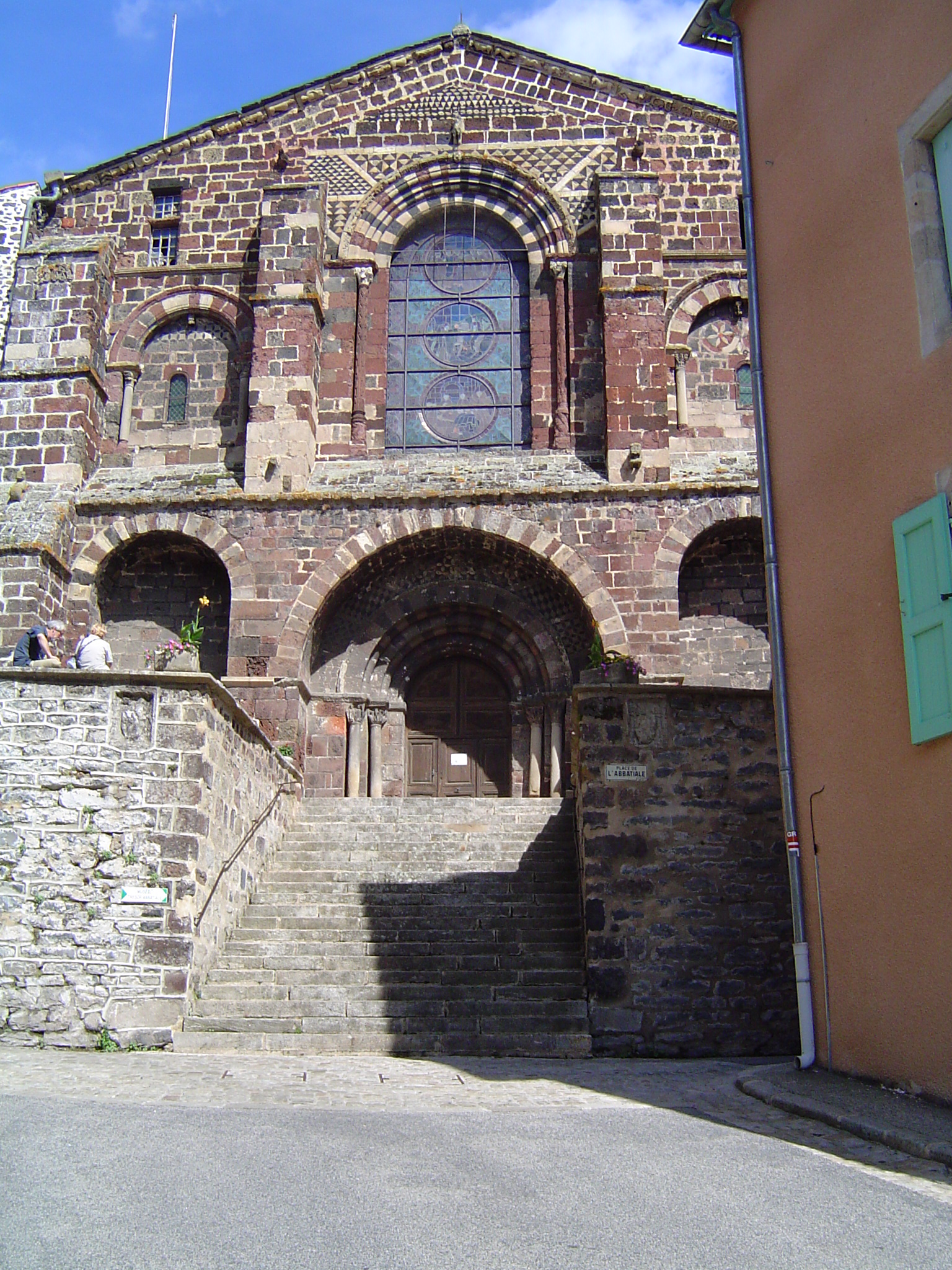 Le Monastier-sur-Gazeille, Abbatical church Saint Chaffre